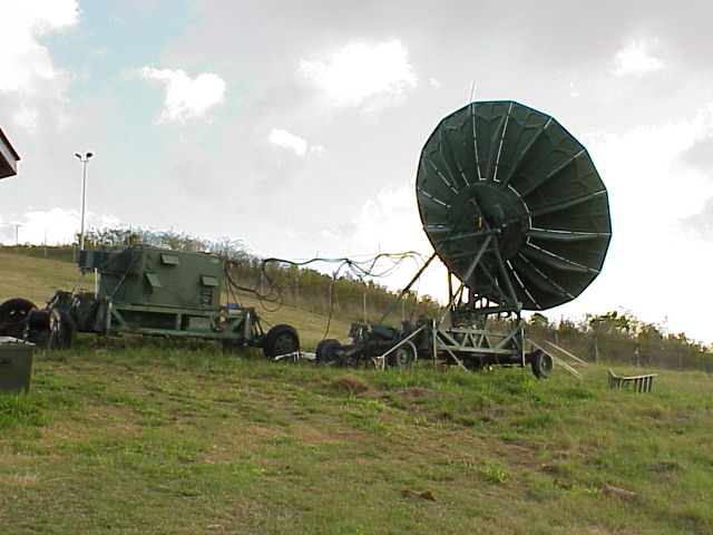 Radio transmitter of the 285th Combat Communications Squadron, U.S. Virgin Islands Air National Guard, U.S. Air Force.